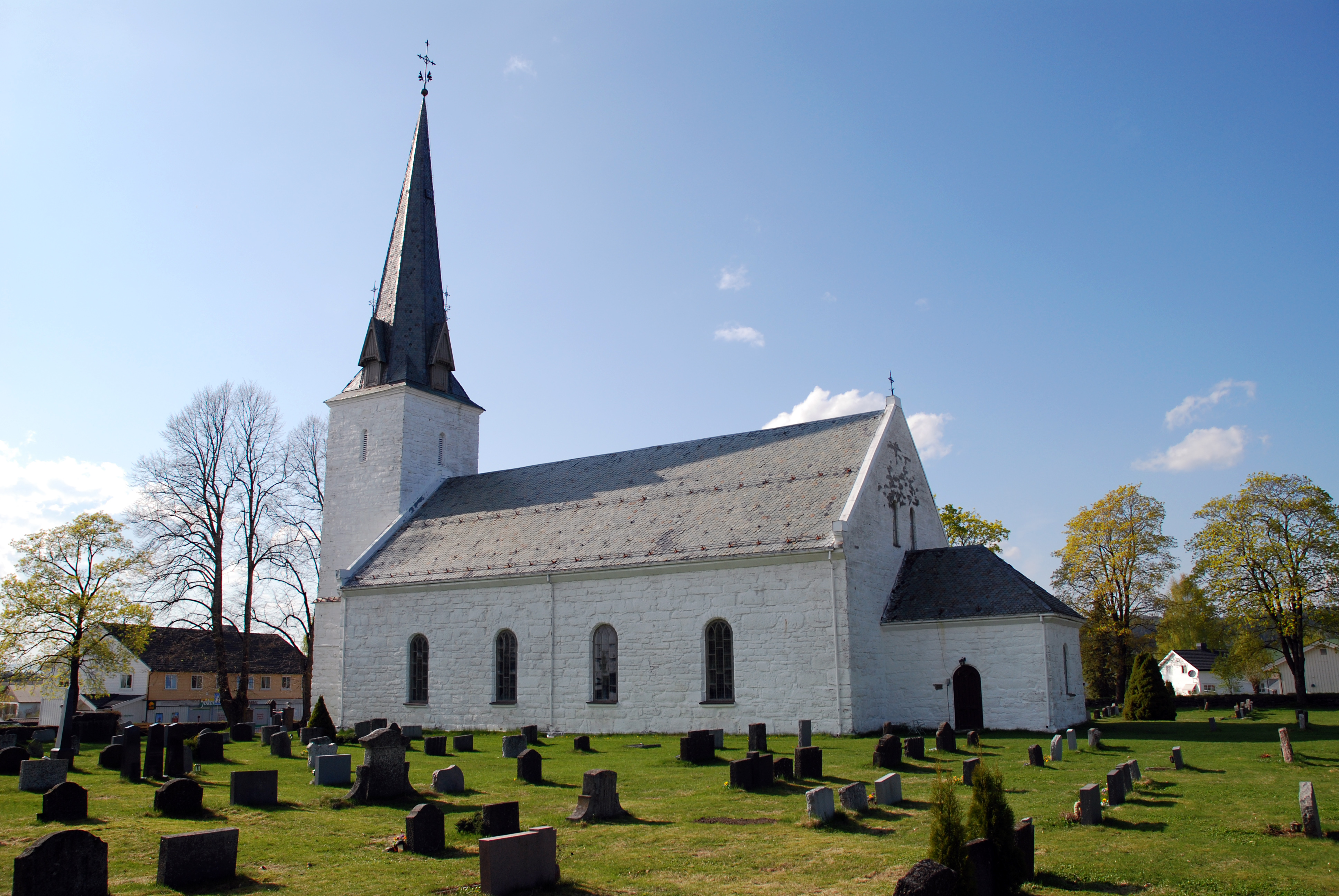 Stavsjø church, in Ringsaker, Hedmark, Norway.